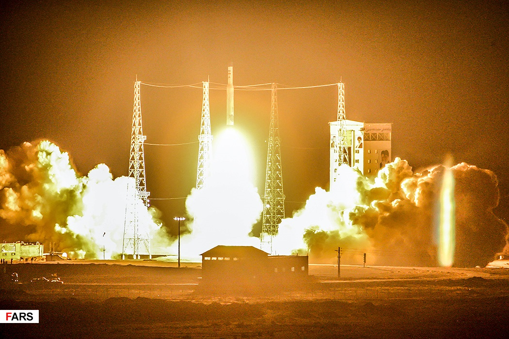 Iran's Simorgh launcher with the Payam satellite.